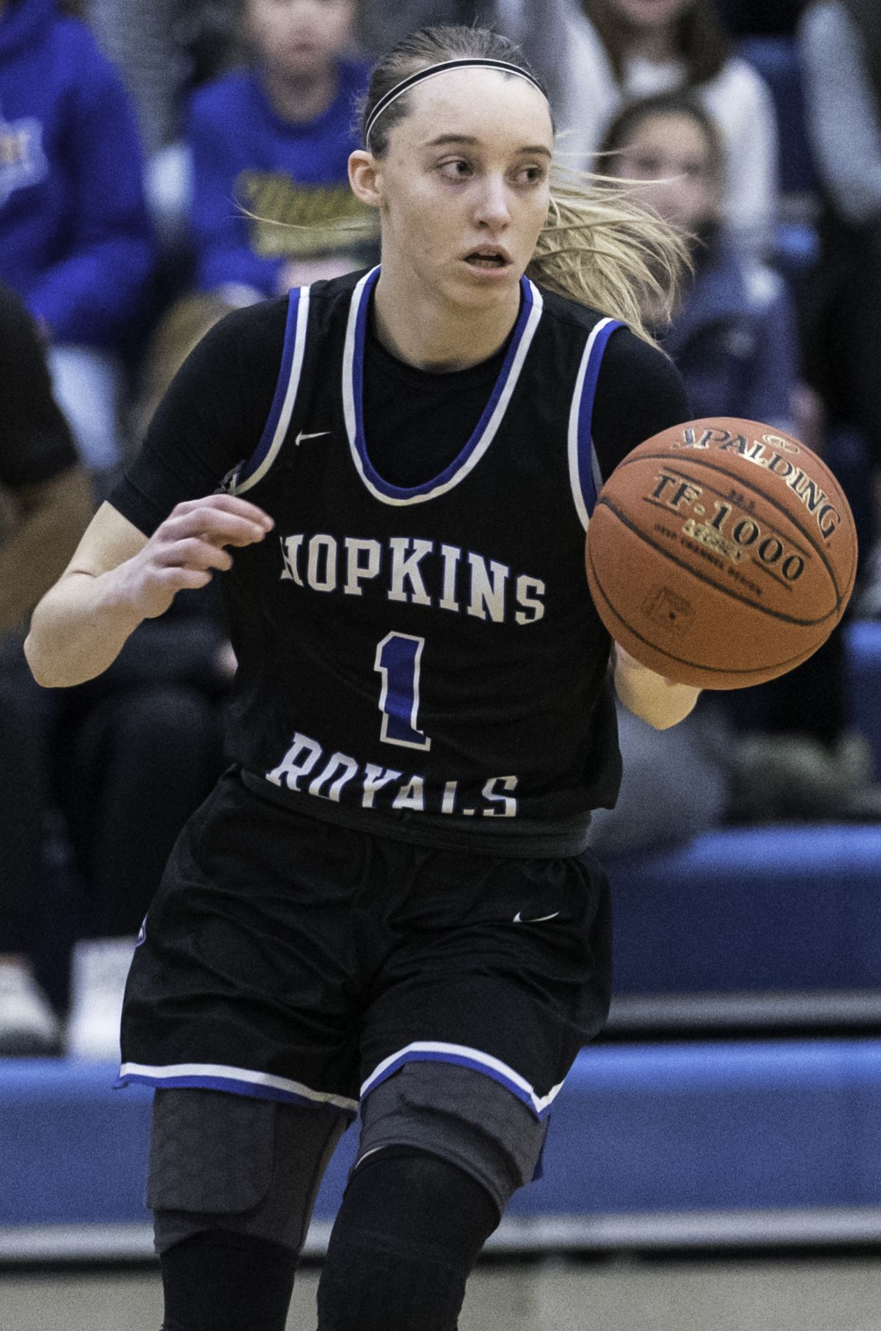 Bueckers, a point guard, has played on Hopkins High School varsity squad since 8th grade. She's a 4x gold medalist with Team USA and was MVP of the FIBA U19 Tournament in the summer of 2019. She is a consensus five-star recruit and the number one player in the 2020 class and has committed to play college basketball for UConn.